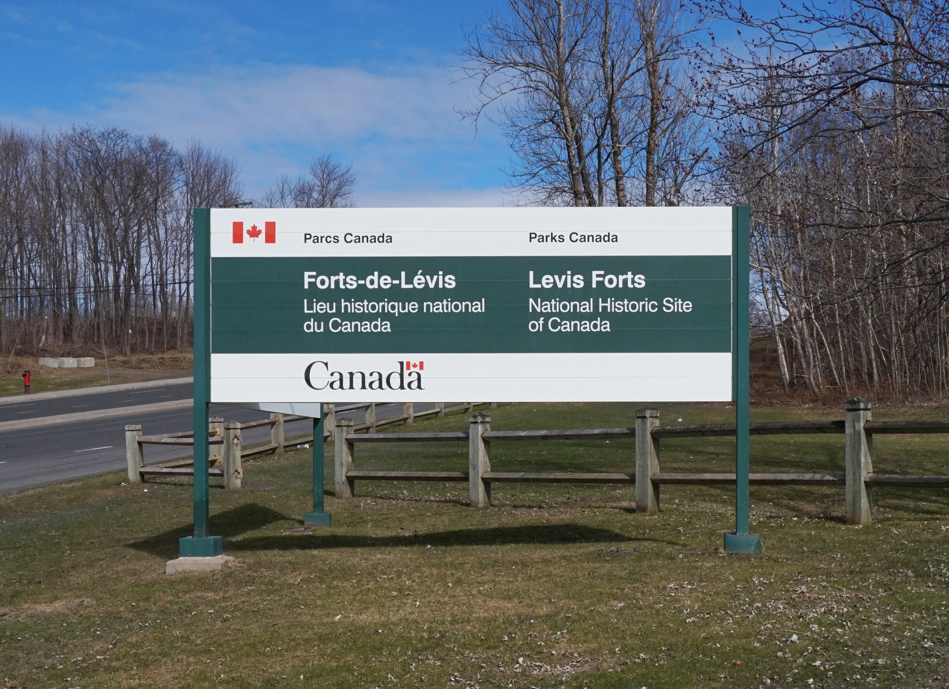 Sign of Lévis Forts, Lévis, Quebec, Canada